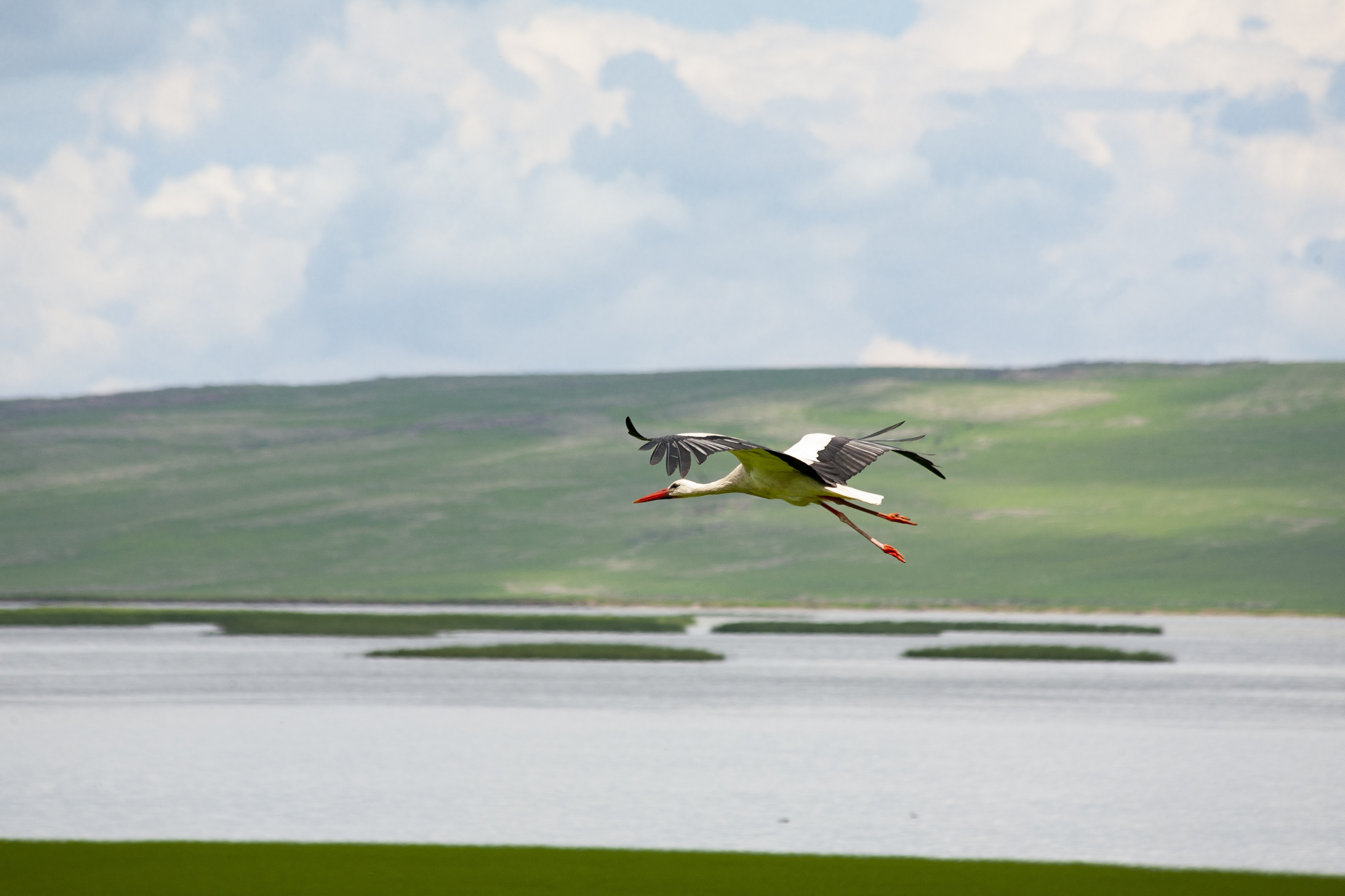 The flight of the stork over the Khanchal Lake. Khanchal Lake Reservoir